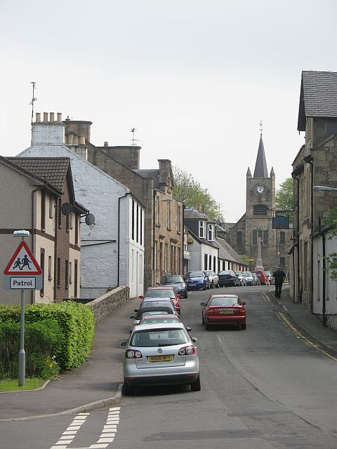 Cambusbarron Suburb of Stirling but somewhat separated from its neighbour by the M9 motorway